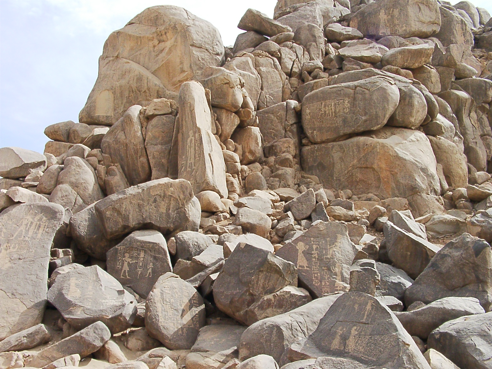 Hieroglyphic inscriptions on Sehel Island rocks in 2006.